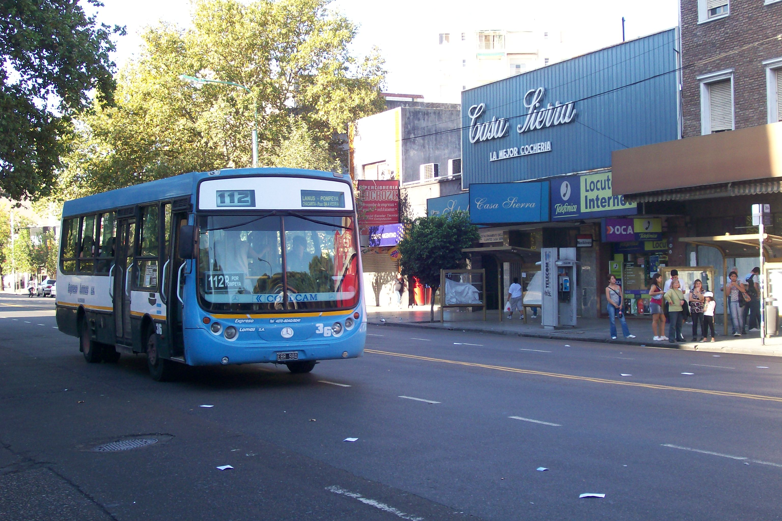 Colectivo de la linea 112, Buenos Aires.